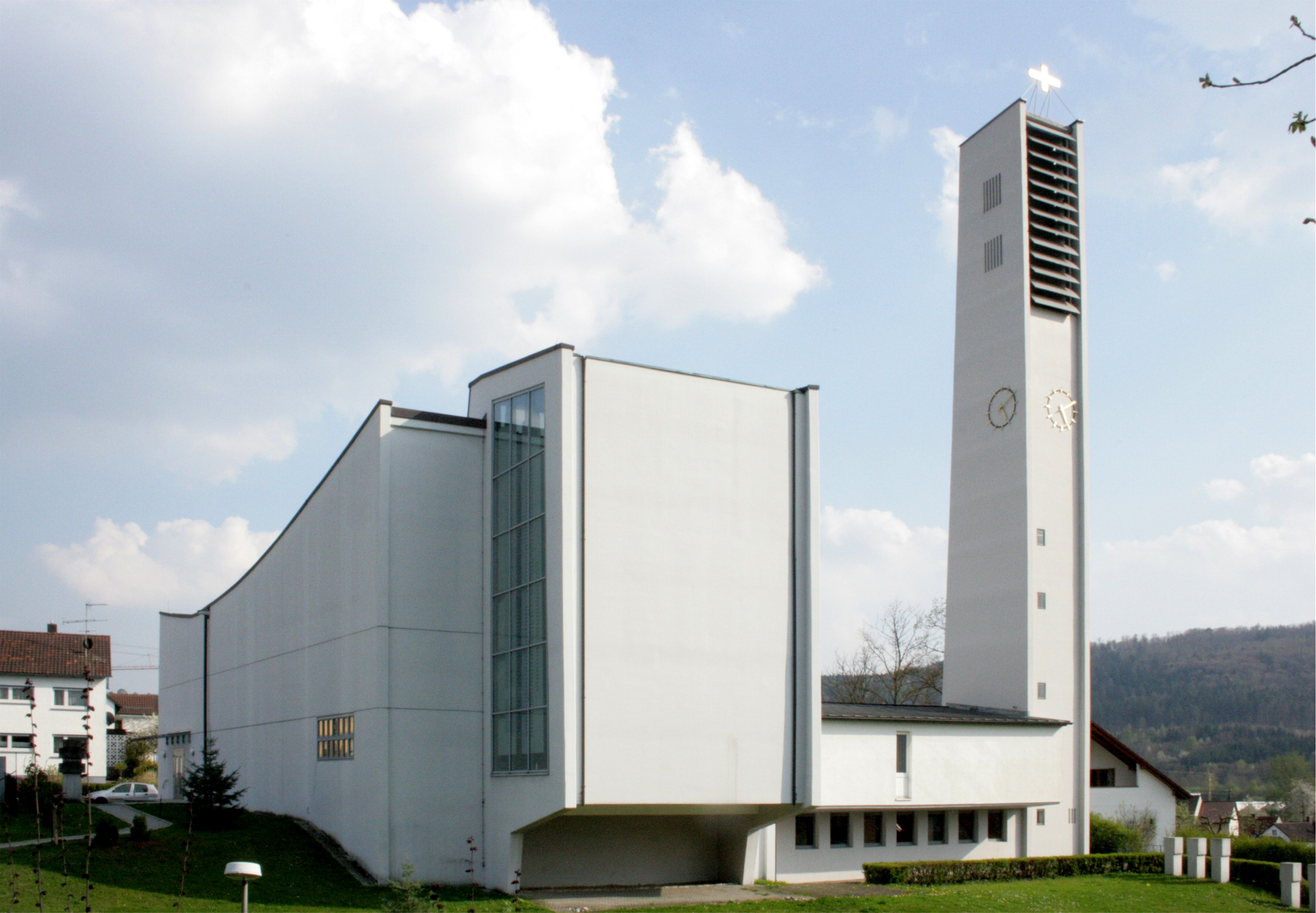 Herz-Jesu-Kirche Plüderhausen